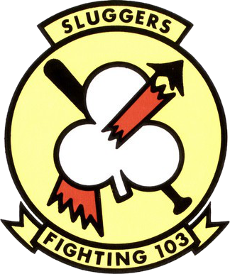 Emblem of the U.S. Navy Fighter Squadron 103 (VF-103) "Sluggers".